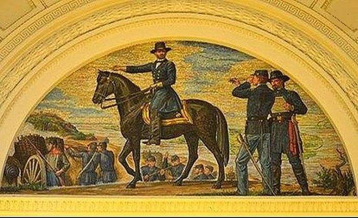 One of the murals in Grant's tomb depicting Grant on his horse Cincinnati